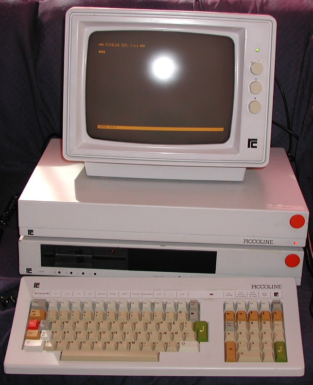 A picture of a complete (and running) RC-759 Piccoline System from RegneCentralen. Photo was taken by me, of a computer from my Personal Collection. Attribution: Thomas Hillebrandt